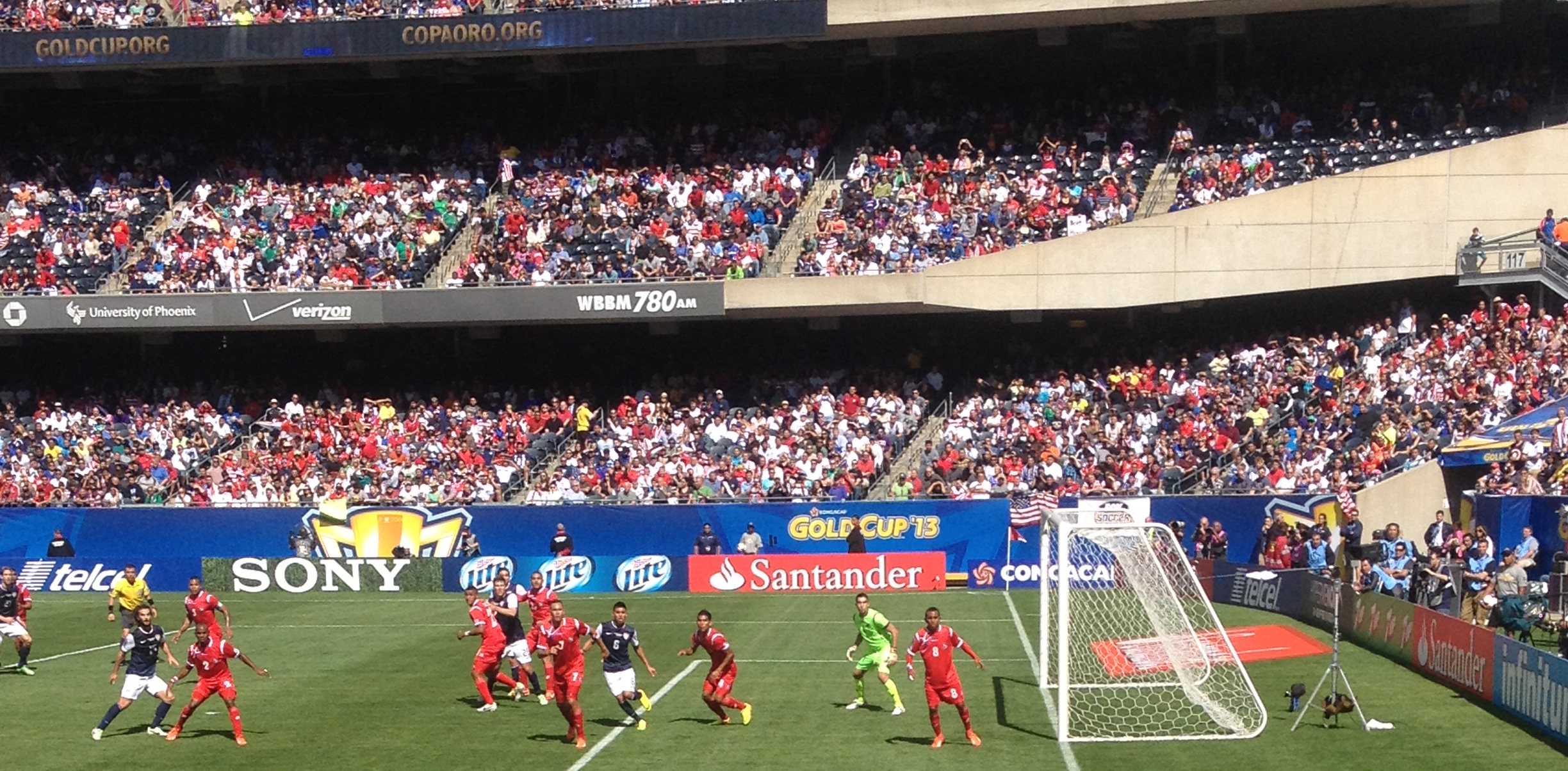 USA vs Panama, Gold Cup 2013 final at Soldier Field in Chicago, July 28, 2013